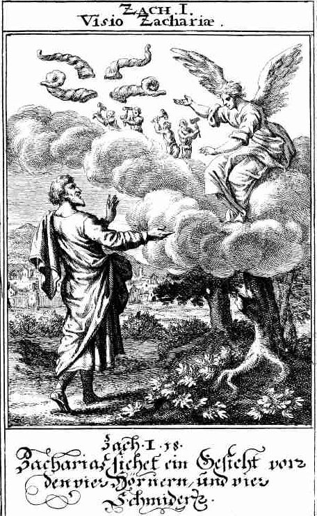 A rendering of Zechariah’s vision of the four horns and four craftsmen, symbolizing the scattering of the nations, from Christoph, Weigel: Biblia ectypa: Bildnussen auss Heiliger Schrifft Alt und Neuen Testaments.